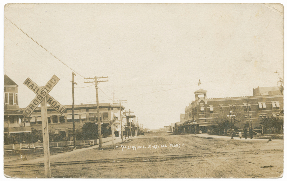 Title: Kleberg Ave., Kingsville, Texas Date: ca. 1910s Part Of: Collection of real photographic postcards of Texas Place: Kingsville, Kleberg County, Texas Physical Description: 1 photographic print (postcard) File: ag2005_0001_01_174_c_kingsville_opt.jpg Rights: Please cite DeGolyer Library, Southern Methodist University when using this file. A high-resolution version of this file may be obtained for a fee. For details see the web page. For other information, . For more information, View Texas: Photographs, Manuscripts, and Imprints